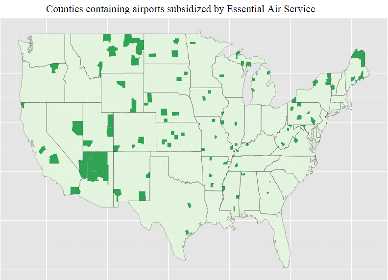 Counties and states served by airports subsidized under the essential air service. List of airports scraped from department of transportation documents and code available here